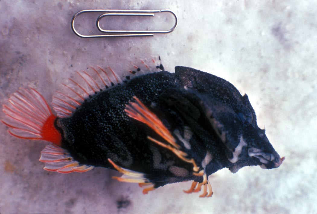 Grunt Sculpin (Rhamphocottus richardsoni) [1]